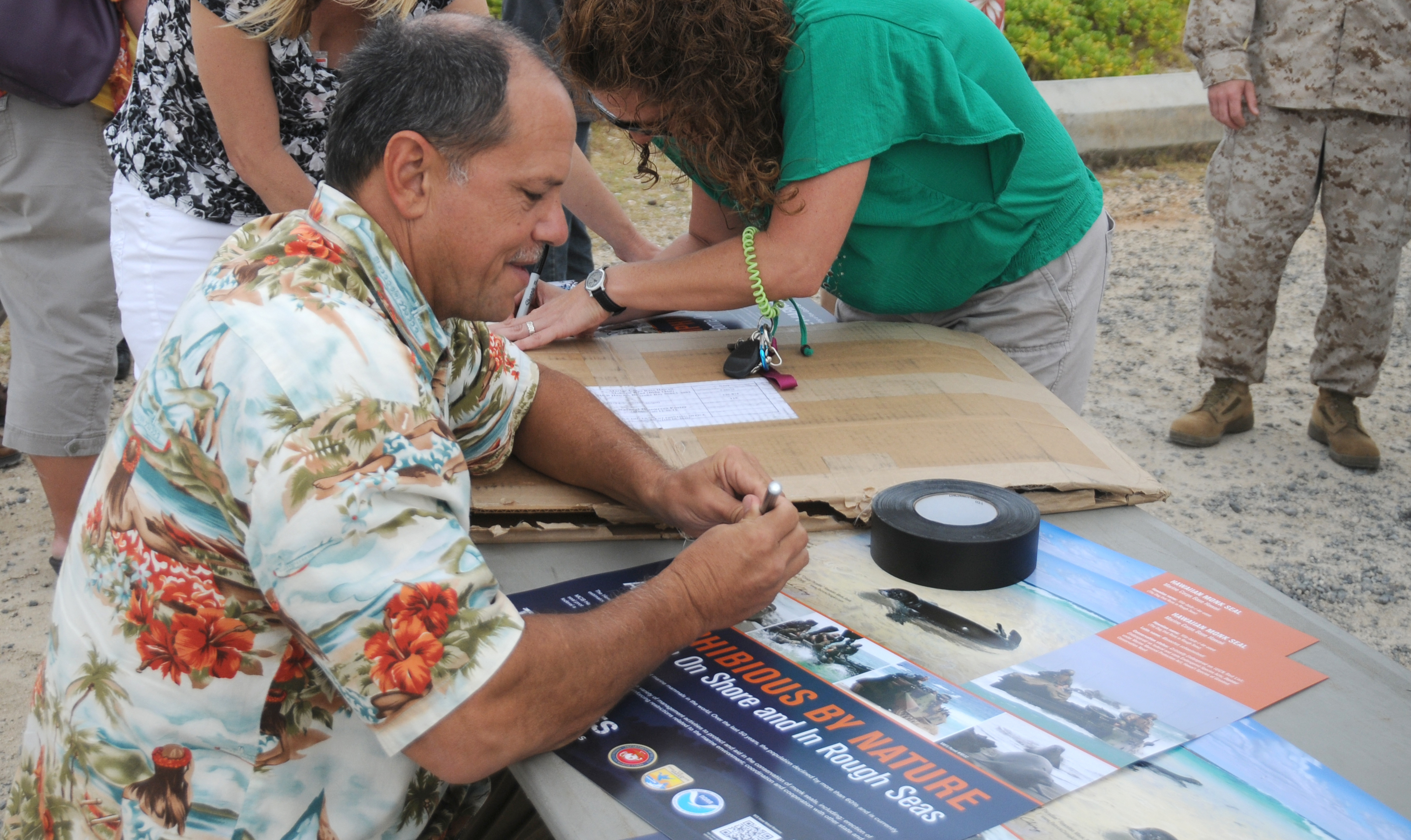 Artist Patrick Ching autographs several copies of a newly released poster featuring Marine Corps Base Hawaii efforts to protect Hawaiian monk seals during an unveiling ceremony, May 23.